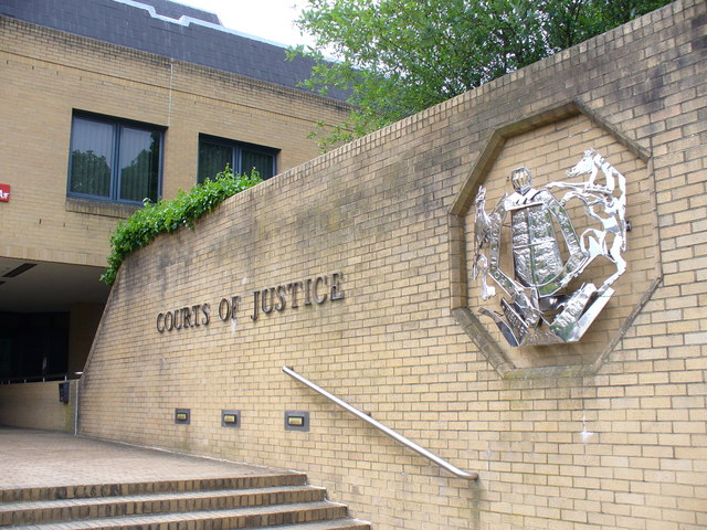 Southampton Courts of Justice (Crown Court and County Court). A modern brick courthouse building in the Bevois Town area of the city, at the southern end of the main thoroughfare, The Avenue